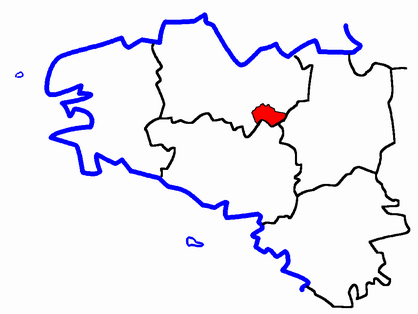 Description: Map for localisazion of cantons of Bretagne region in France Source: made by Hervé Tigier in april 2005 from another large map (published in 1990)